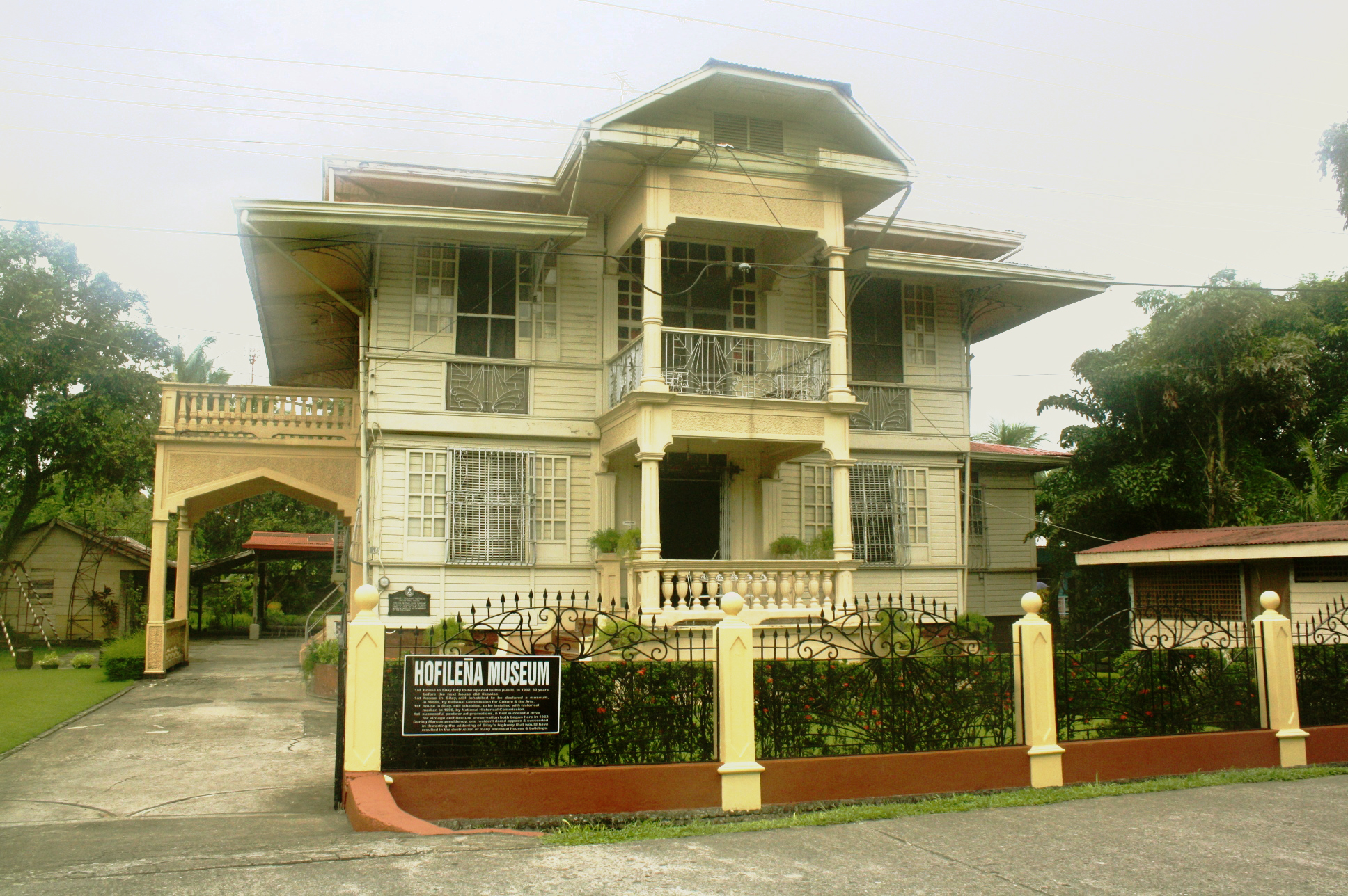 The facade of the Hofileña Ancestral House.